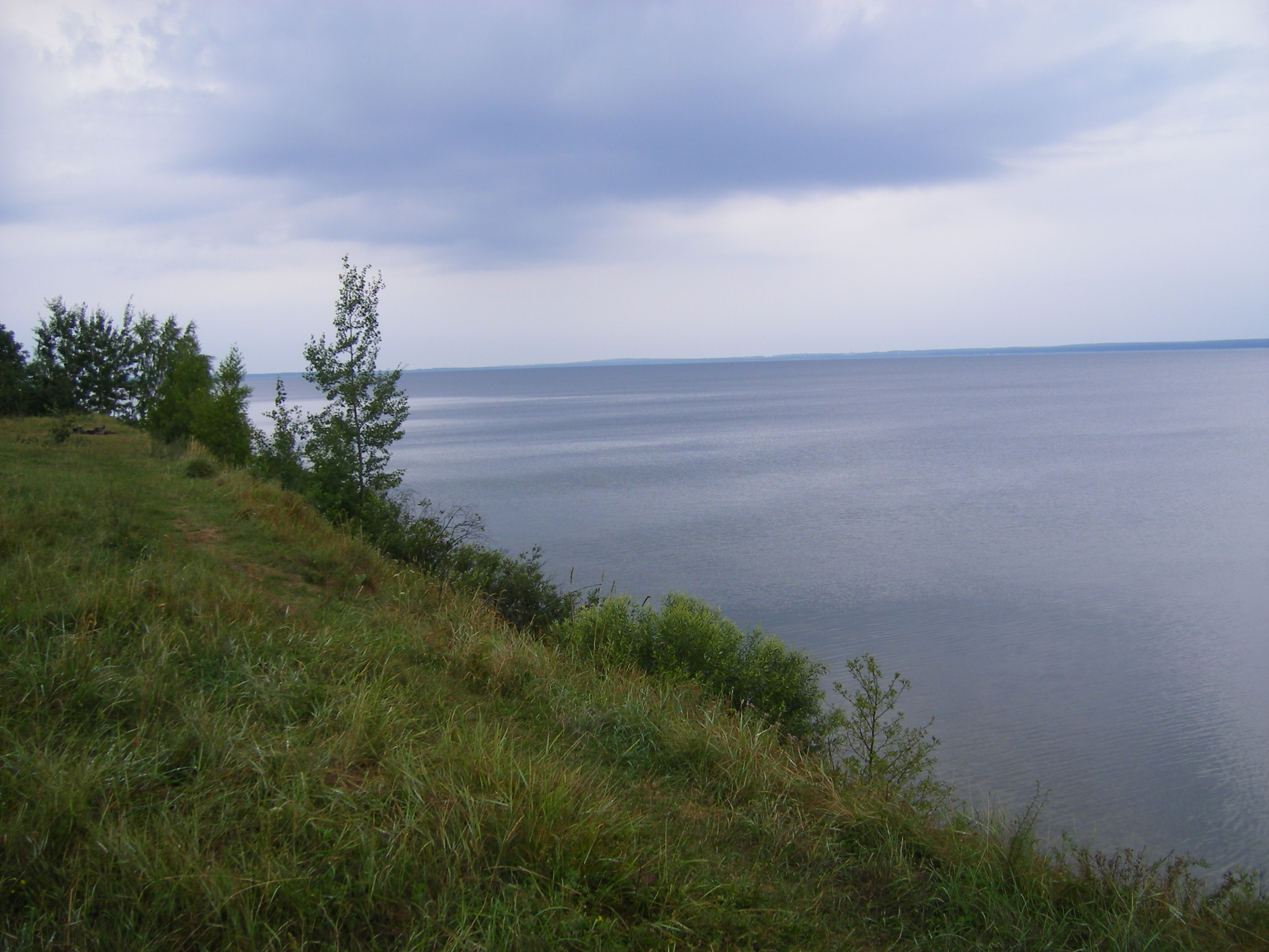 Northern Coast of Narach Lake in Myadzel District